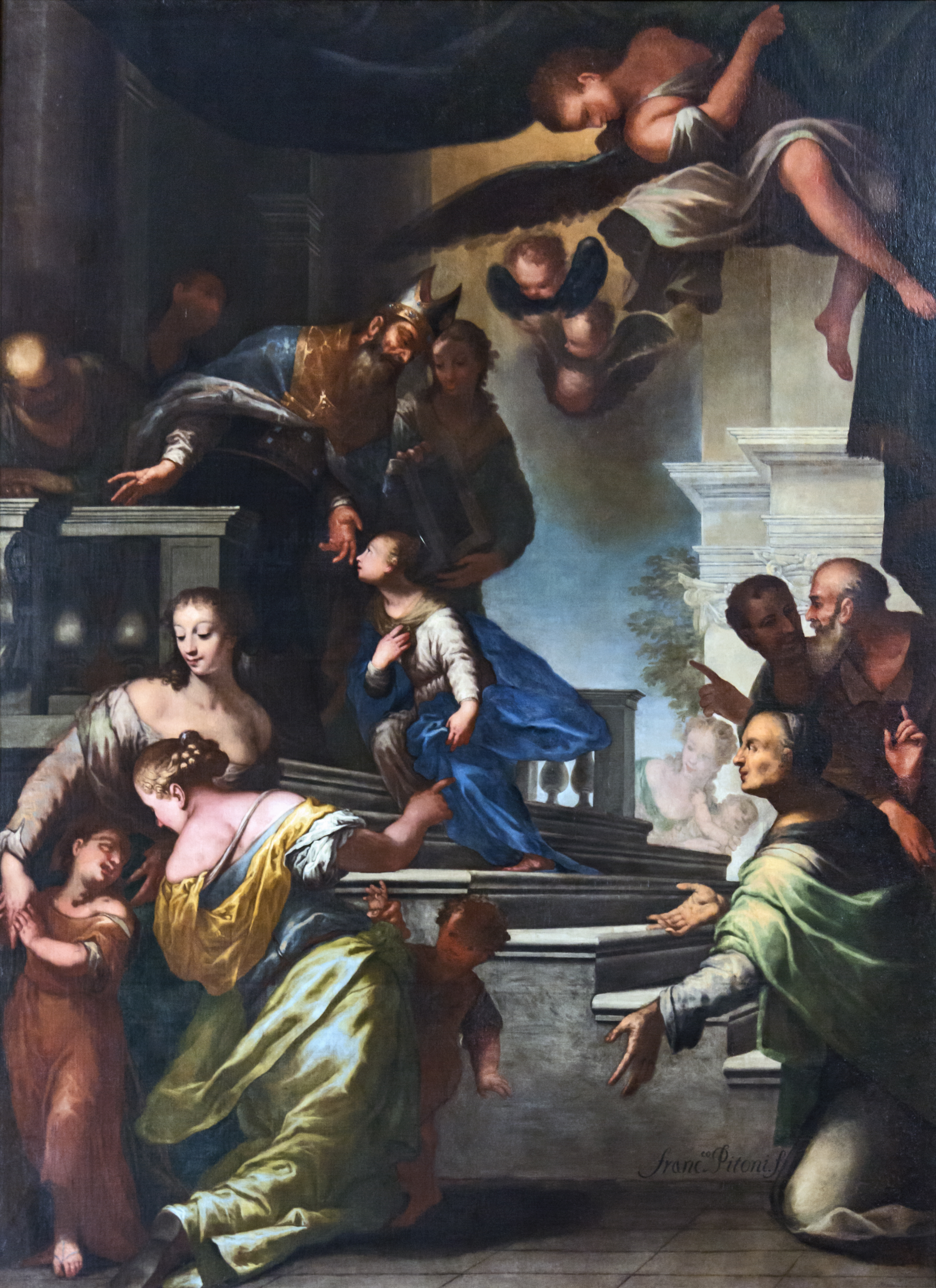 Church San Lorenzo in Vicenza - Right wall of the choir, Presentation of Mary in the Temple by Francesco Pittoni oil on canvas circa 1690.